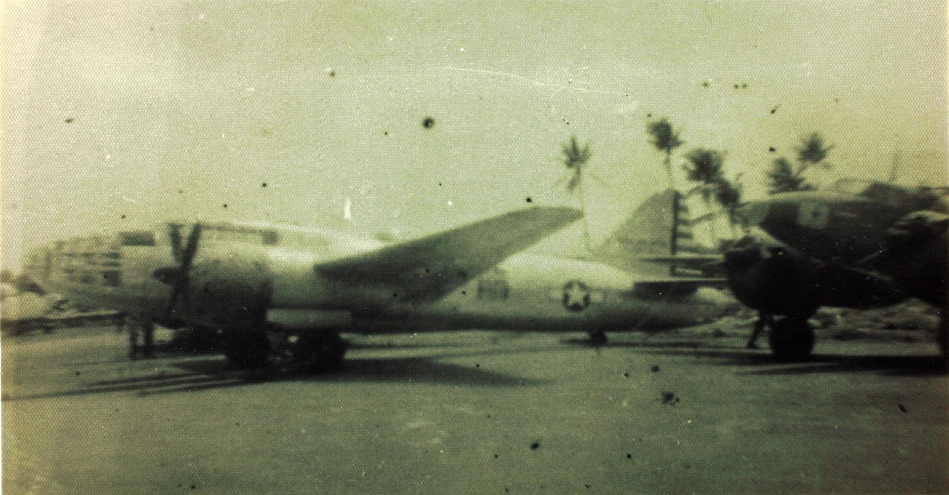 Mitsubishi G4M "Betty" in United States Army Air Forces markings as war booty.